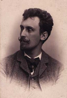 Viggo Stuckenberg (1863-1905), Danish poet and writer